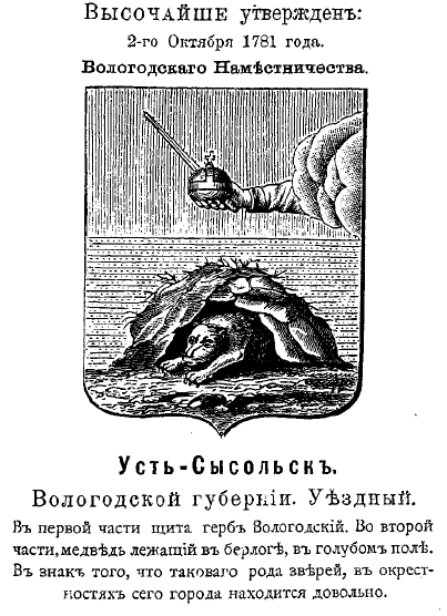 Syktyvkar (Ust-Sysolsk, Komi), coat of arms (1780)